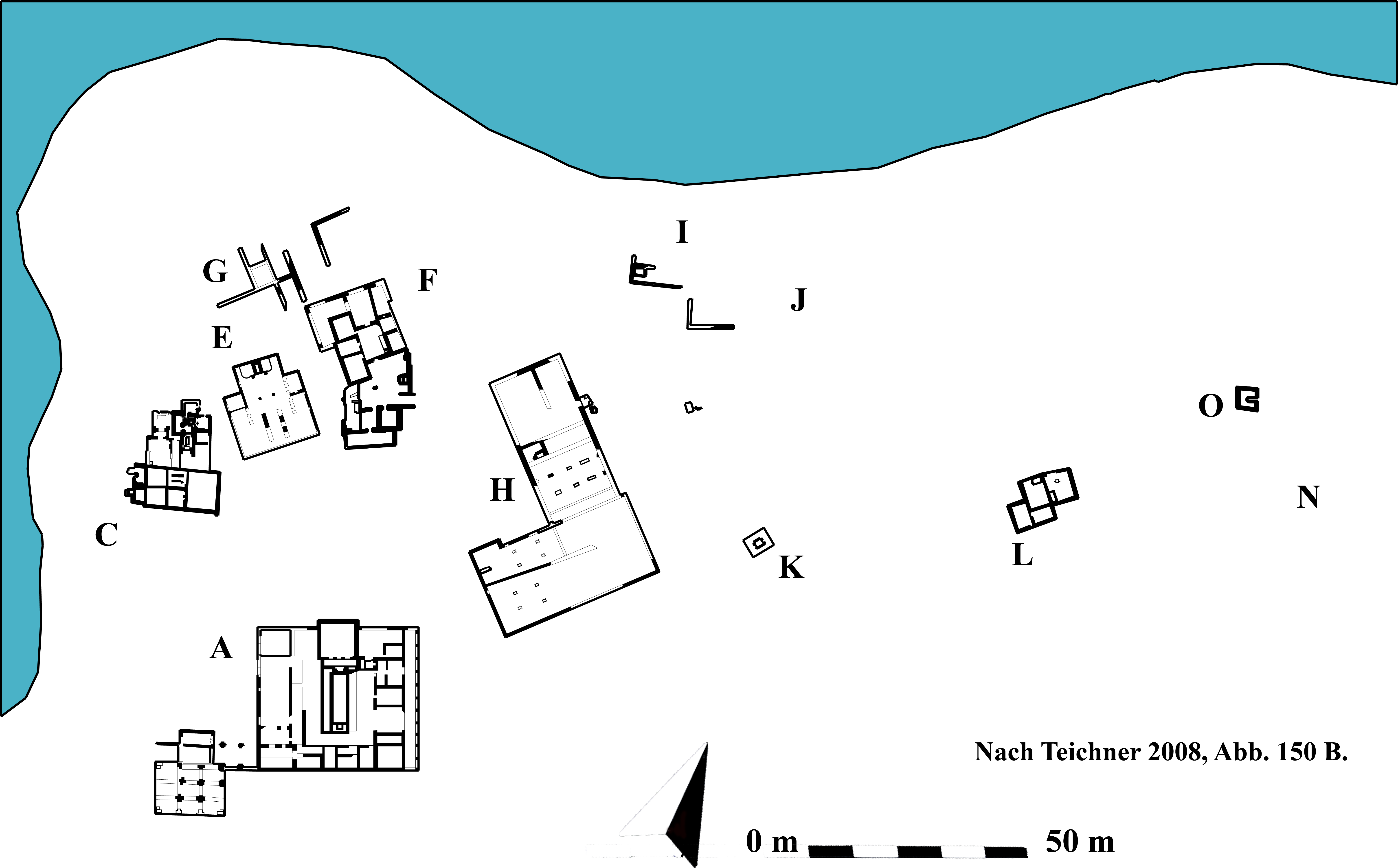 Expansion phase of the settlement, during the middle imperial period. Cerro da Vila archaeological site, in Algarve, southern Portugal. Image taken from the 2008 work Entre tierra y mar, by Felix Teichner.